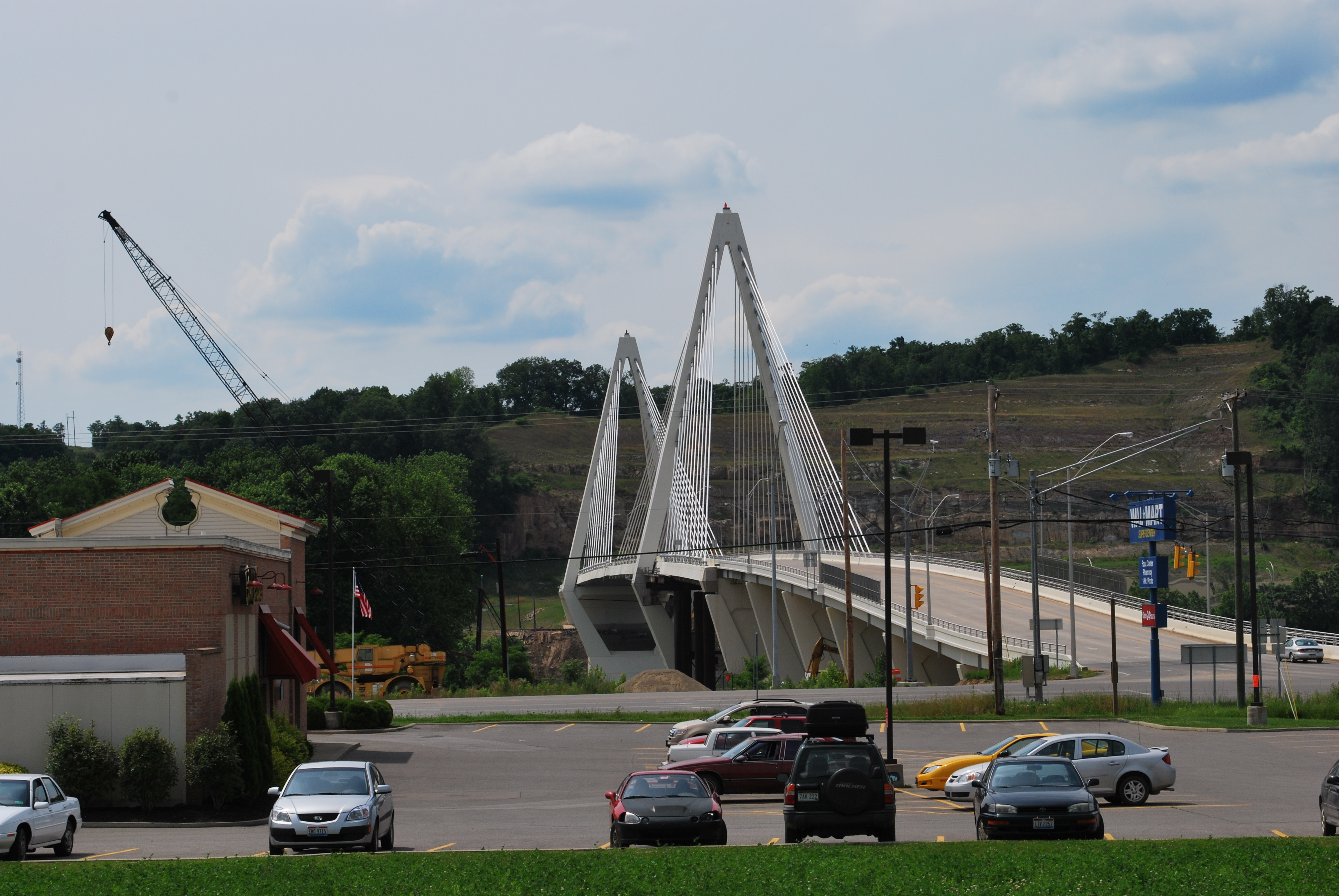 Photo of the new 2008 Pomeroy-Mason Bridge over the Ohio River.